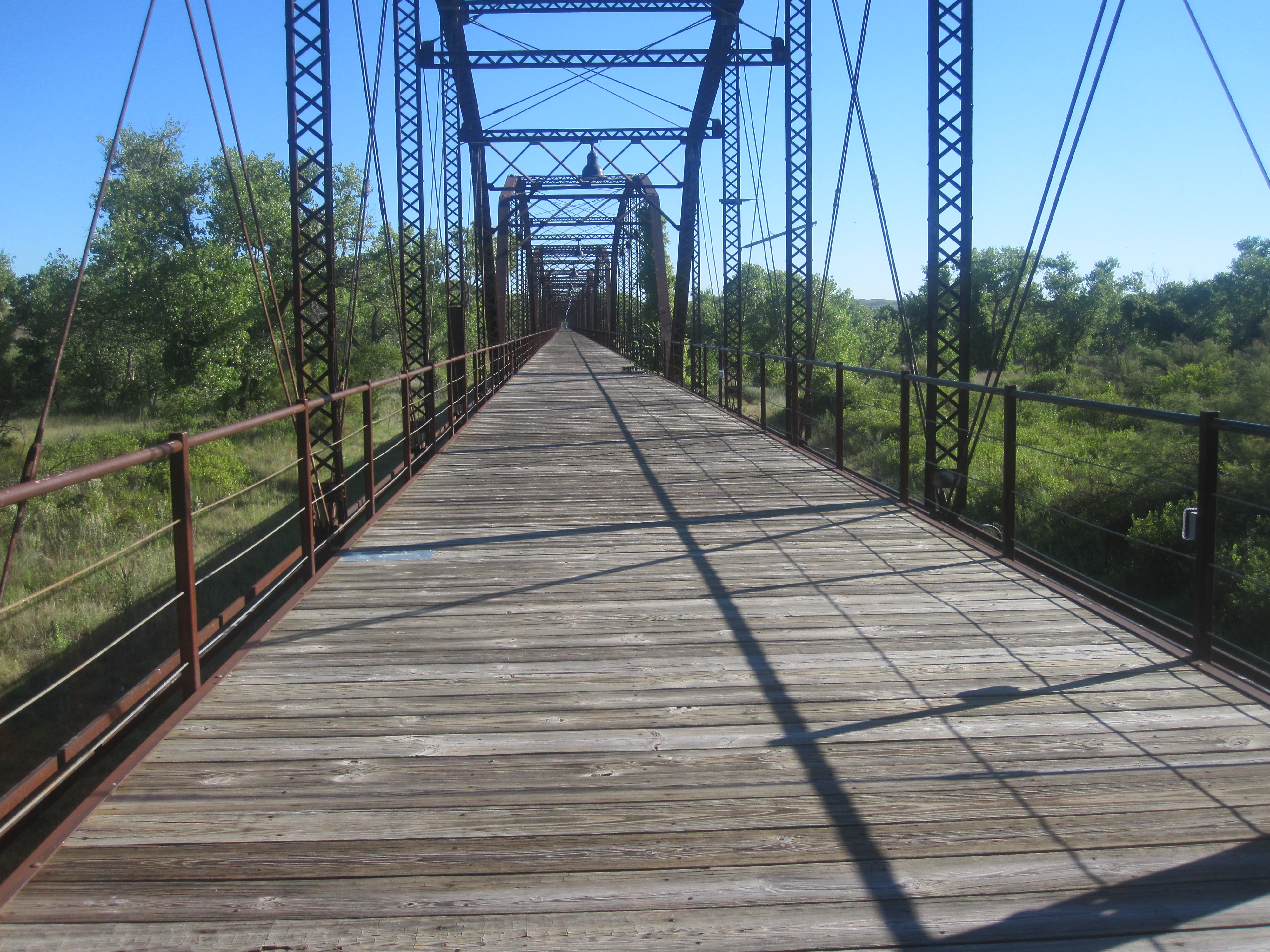 I took photo with Canon camera in Canadian, TX.